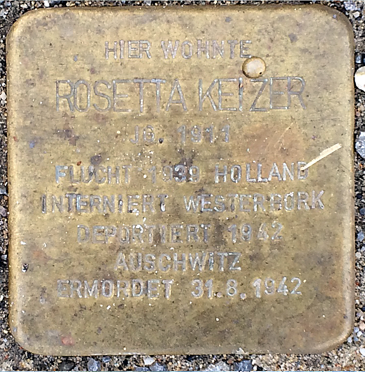 Stolperstein - Stumbling Stone in Nettetal, NRW, Germany Rosetta Keizer